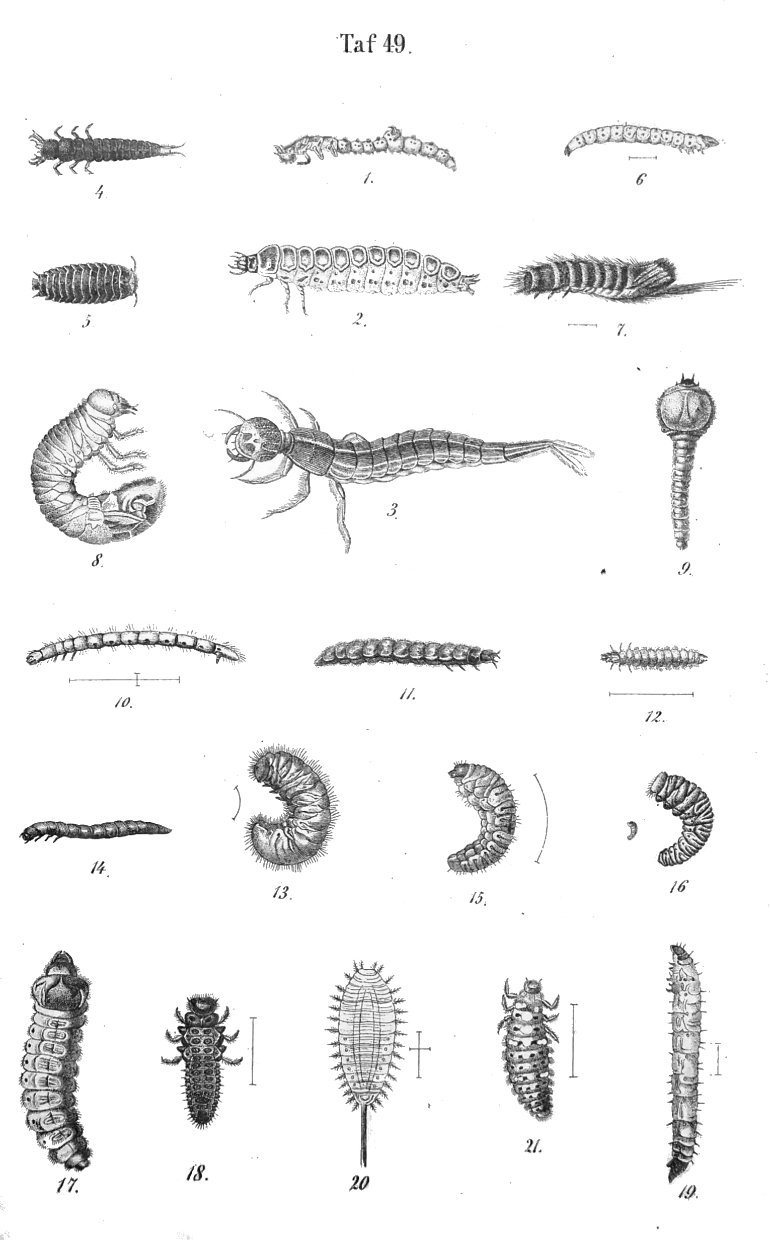 Larvae of beetles Cicindela Calosoma sycophanta Dytiscus Staphylinus erythropterus Silpha atrata Meligethes aeneus Anthrenus musaeorum Melolontha vulgaris Chrysobothris affinis Agriotes lineatus Cantharis sp Clerus formicarius Ptinus Tenebrio molitor Balaninus nucum Bostrichus chalcographus Saperda carcharias Lina tremulae Psylliodes chrysocephala Cassida nebulosa Coccinella septempunctata